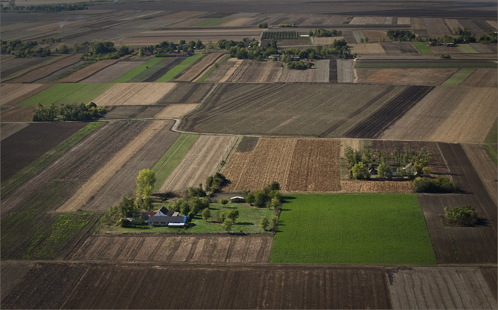 Agriculture in Vojvodina